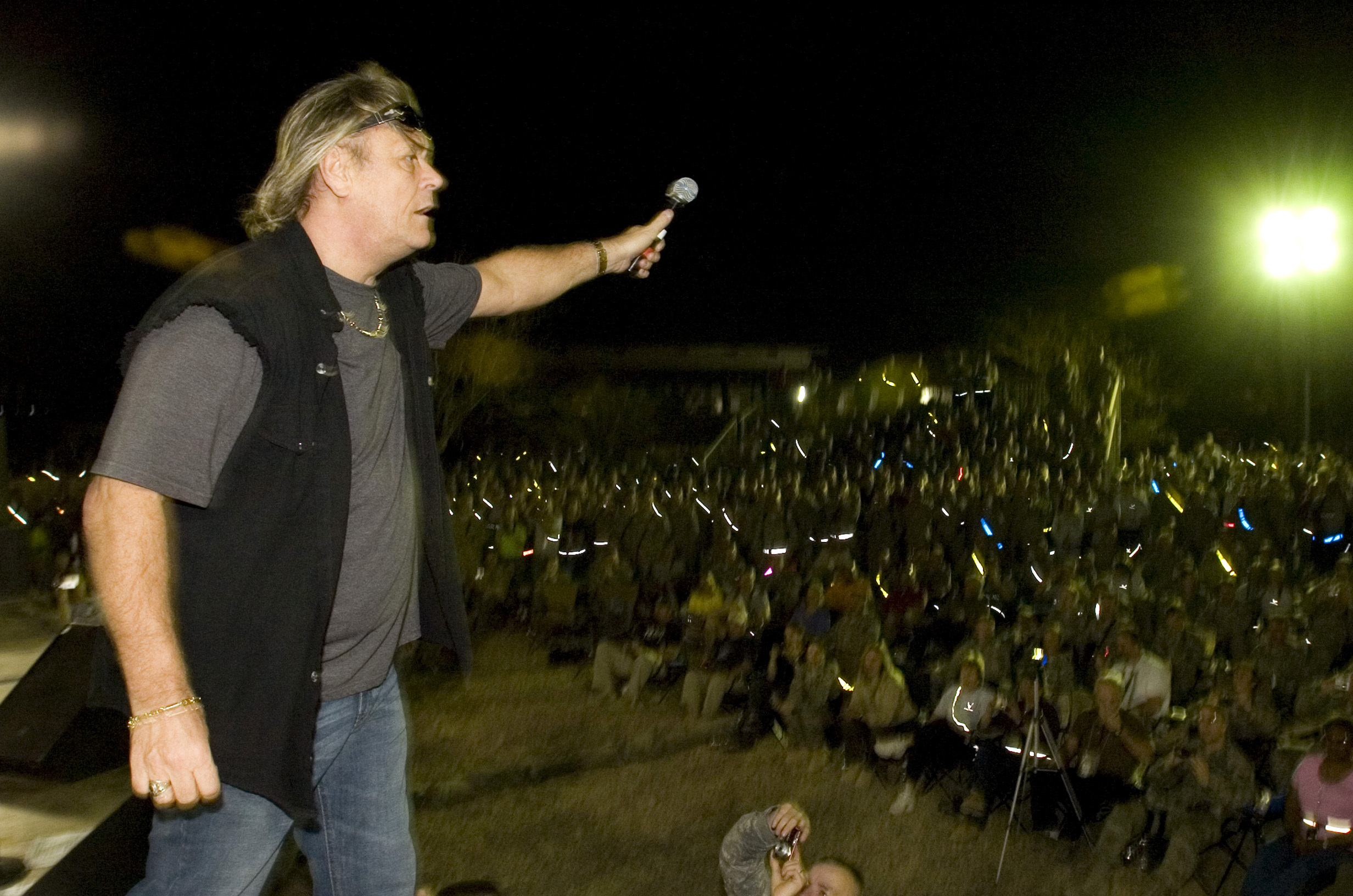 Lead vocalist Brian Howe sings as classic rock band Bad Company performs for service membesr on the Victory stage, Camp Victory, Baghdad, March 12. The English rock band wanted to perform for the troops to show their support. The band originally formed in 1973. Their member lineup has changed throughout the years and today is made up of lead vocalist Brian Howe, guitarist Dean Aicher, bass guitarist Miguel Gonzalez, and drummer Matt Brown.